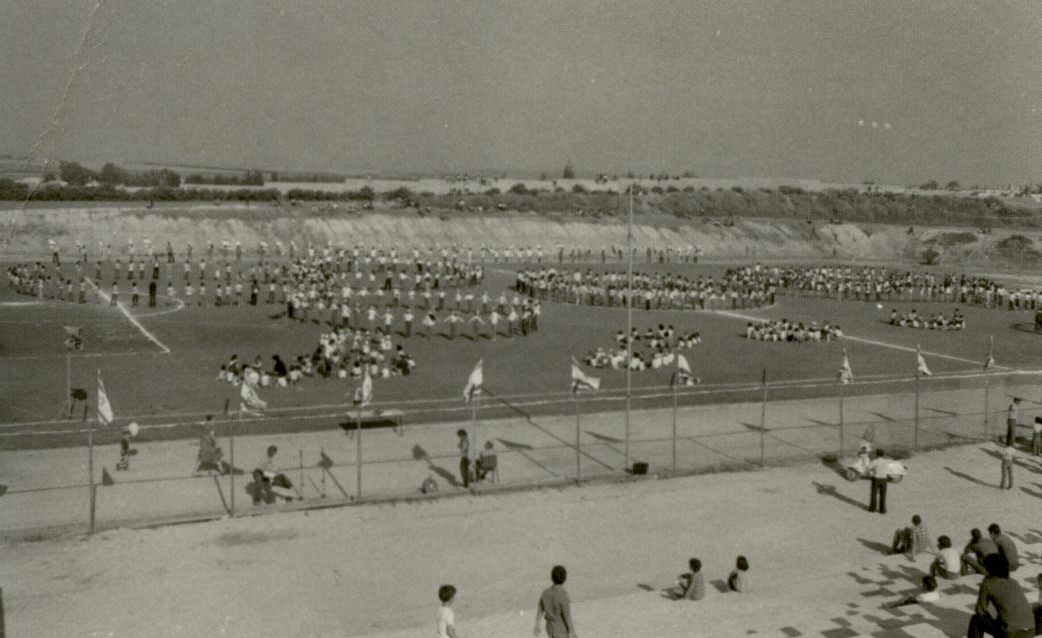 Kiryat Gat, Jewish holidays